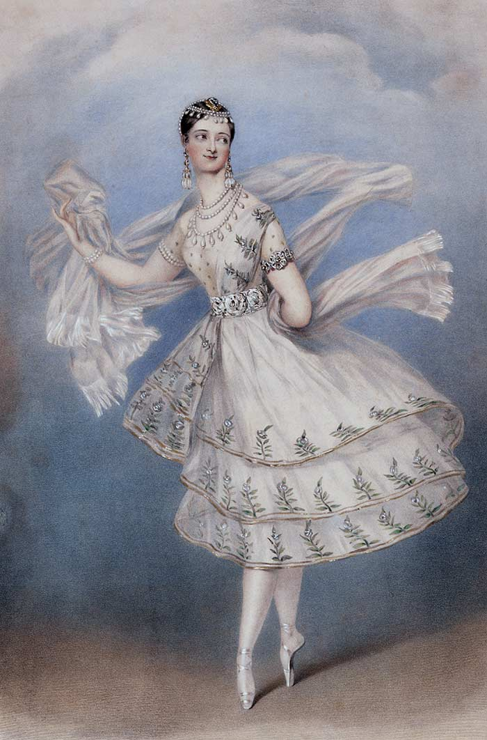 Lithograph by Alfred Edward Chalon (1780-1860) of the ballerina Marie Taglioni (1804-1884) costumed as Zelica (Zoloé) in the opera-ballet Le Dieu et la Bayadère, ou La courtisane amoureuse (1830), choreographer Filippo Taglioni (1777-1871), composer Daniel Auber (1782-1871).Le Dieu et la Bayadère was titled The Maid of Cashmere, in the English version danced in 1837 by Mary Ann Lee and Augusta Maywood at Philadelphia’s Chestnut Street Theatre ; french Le Dieu et la Bayadère ou La Bonne de Cachemire.